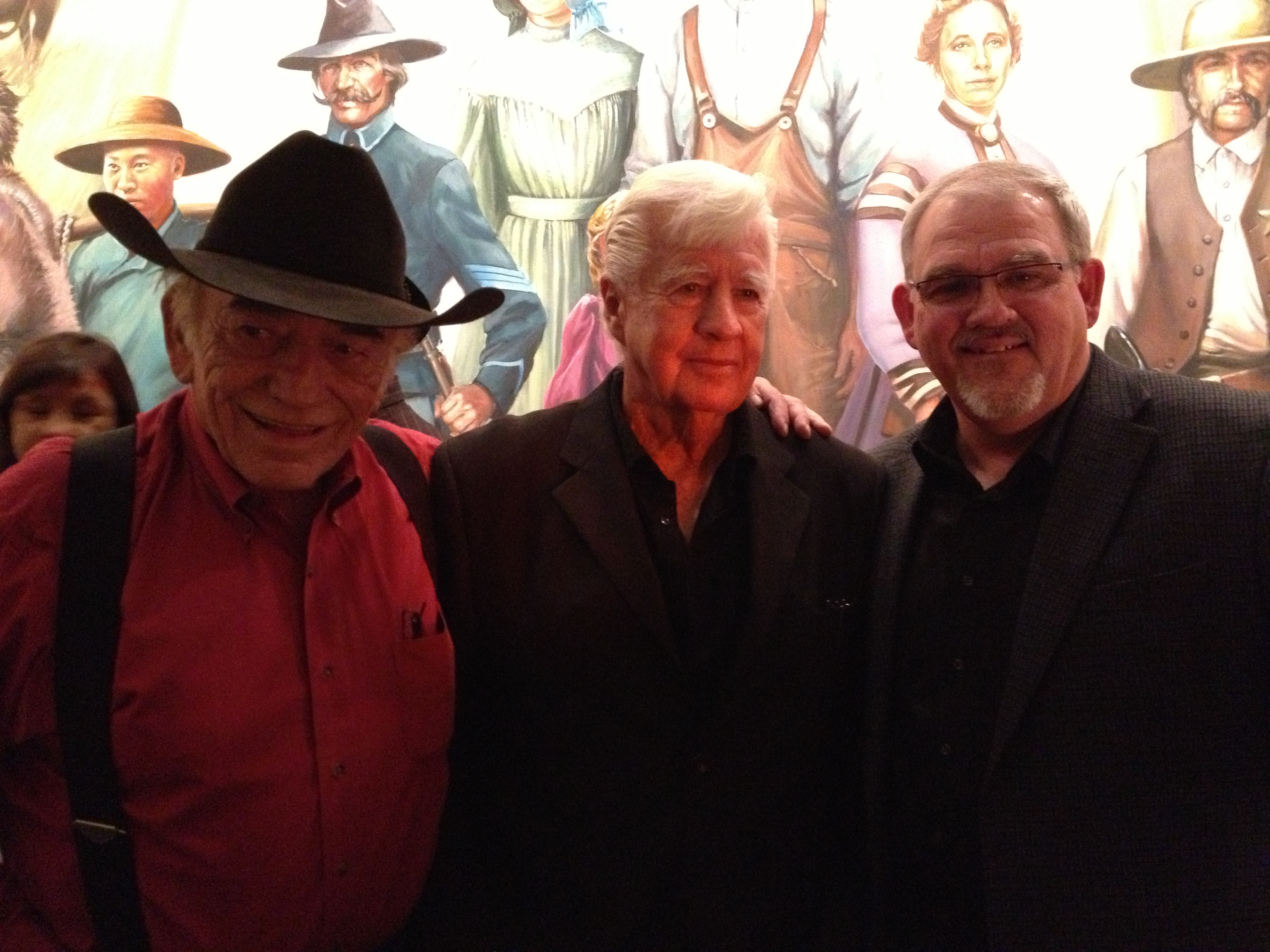 Soiree at The Autry Museum